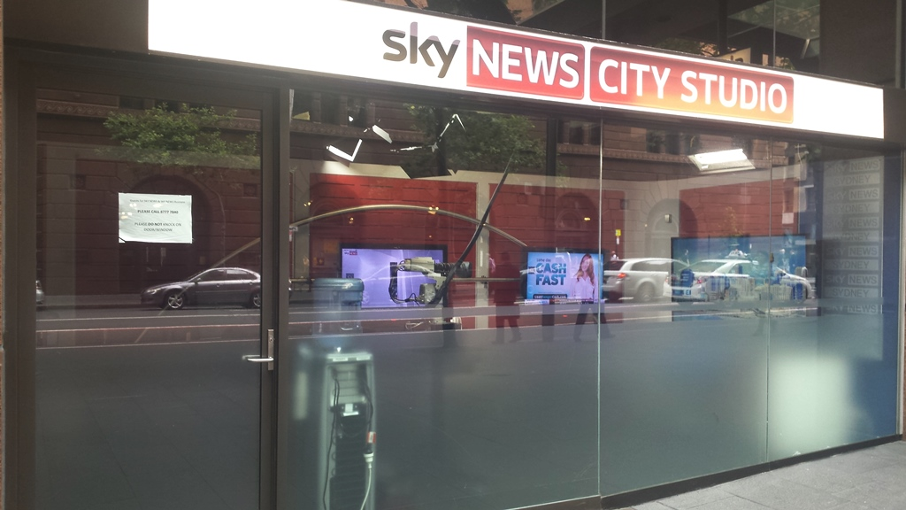 A photo of Sky News Australia's studio in Sydney City at Martin Place.